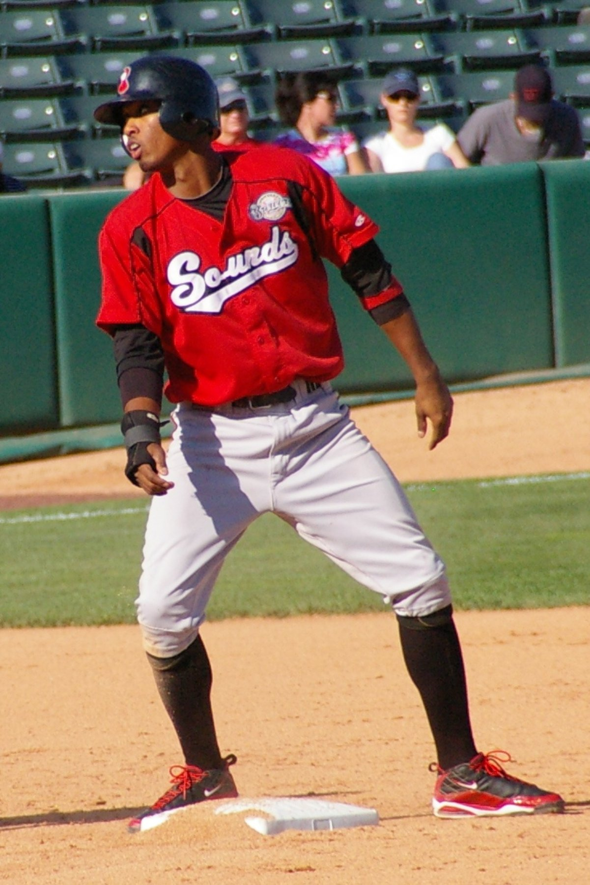 Alcides Escobar, a runner for the minor league Nashville Sounds, stands safely at second base during a game at Spring Mobile Ballpark on August 9, 2009